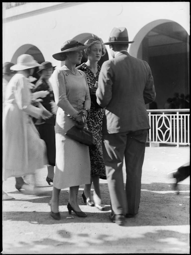 A photo from the Tom Lennon Photographic Collection from the Powerhouse Museum. This files was posted to Flickr by The Powerhouse Museum (See their website for further information). Many thanks to the Powerhouse Museum for helping release this wonderful material. This tag does not indicate the copyright status of the attached work. A normal copyright tag is still required. See Commons:Licensing for more information.